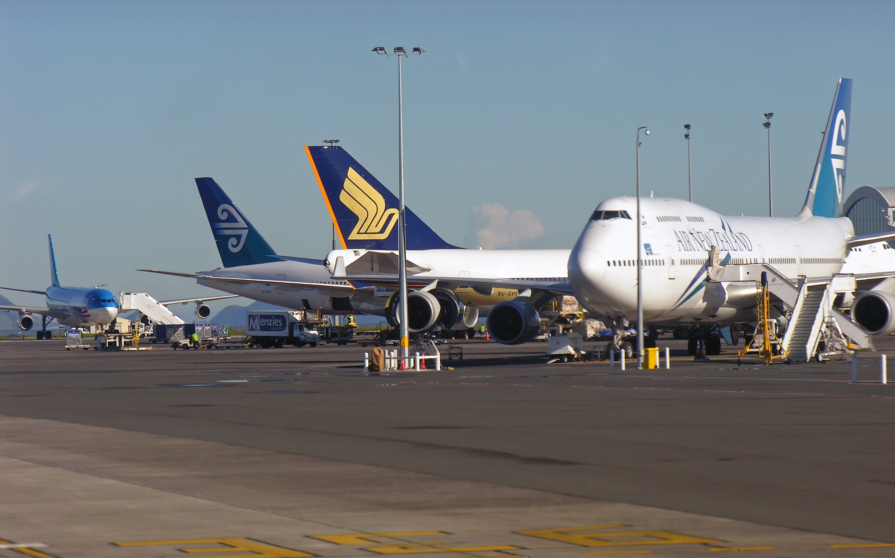 Airliners at Auckland International airport , New Zealand